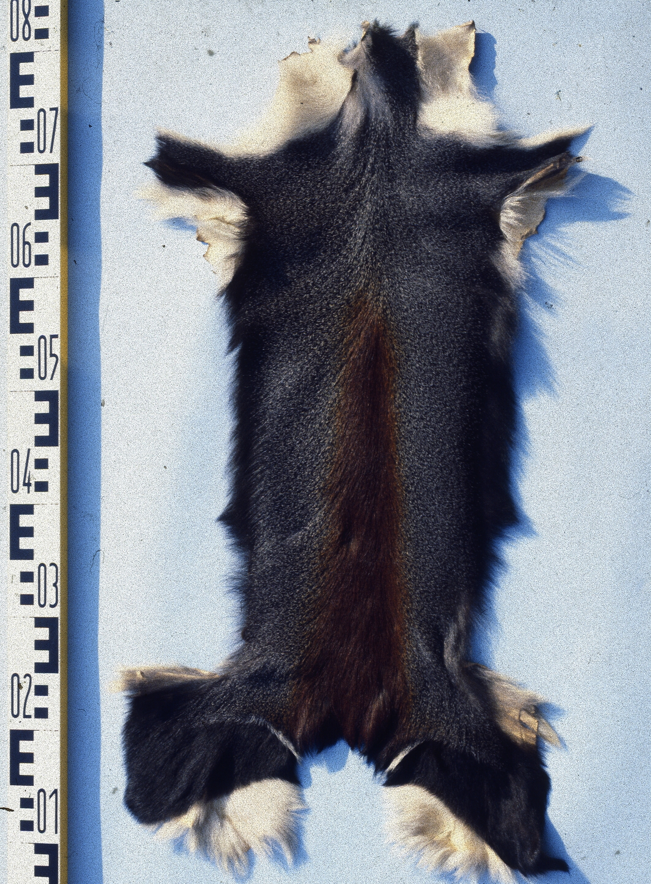 Diana monkey fur skin(Cercopithecus diana). Fur skin collection, Bundes-Pelzfachschule, Frankfurt/Main, Germany